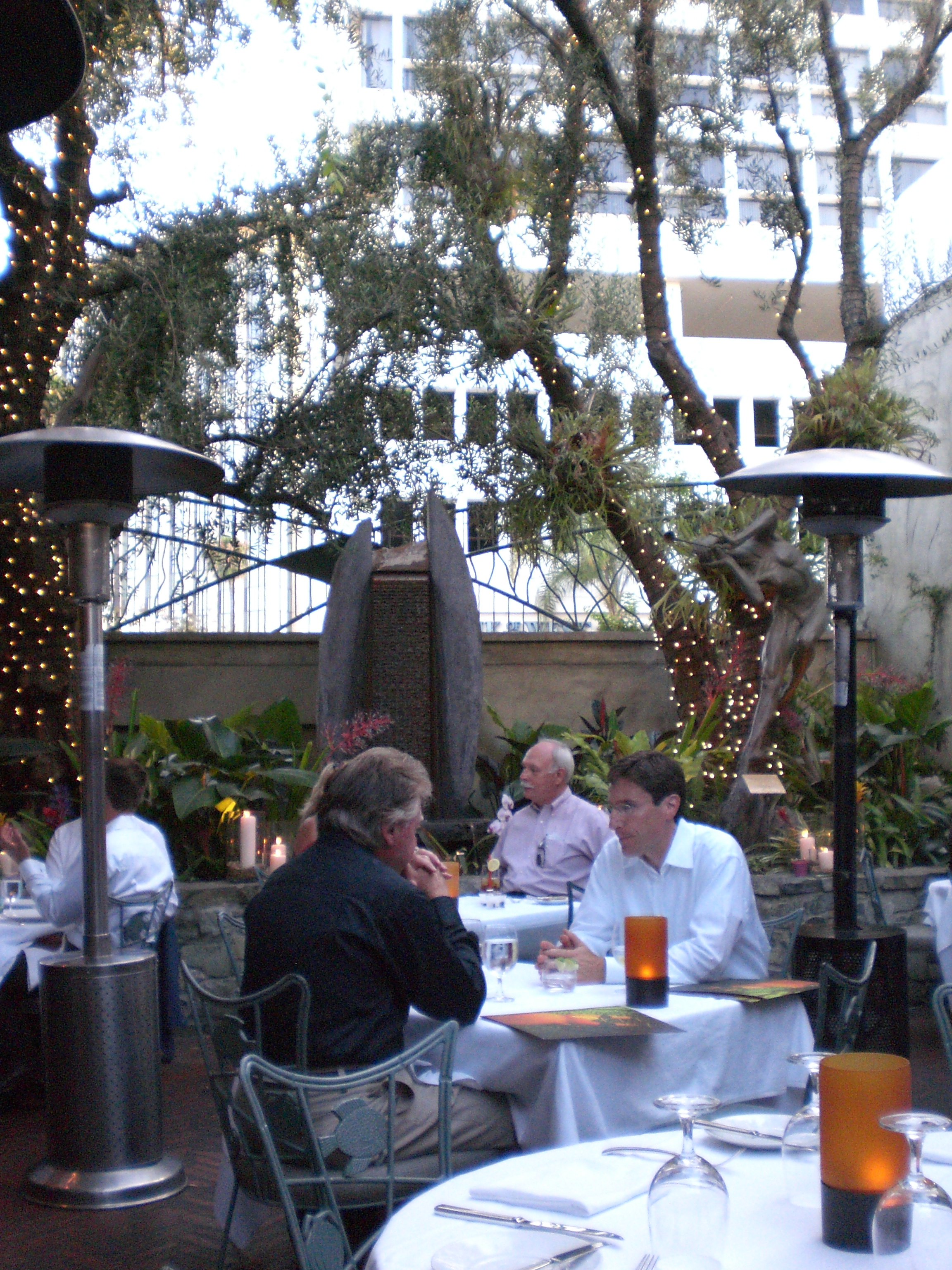 The beautiful courtyard eating area at Spago Beverly Hills